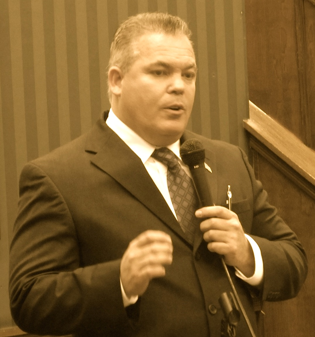 Bill Evans, currently running as a Democratic candidate for Cook County Sheriff in 2014, speaking at Friends of Bill Evans Fundraiser in February 2013